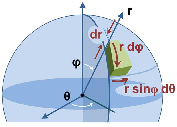 Volume element in spherical coordinates